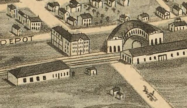 The East Tennessee, Virginia and Georgia railyard at the intersection of Gay Street (lower right) and Depot Street in Knoxville, Tennessee, USA, as it appeared in 1871. The roundhouse is now the location of the Southern Terminal. The building opposite the roundhouse is believed to be the building at 207 West Jackson Ave., currently occupied by Heuristic Workshops.